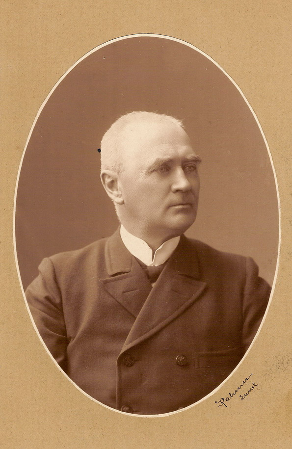 Carl Brink, Swedish military and mayor of Lund, Sweden.